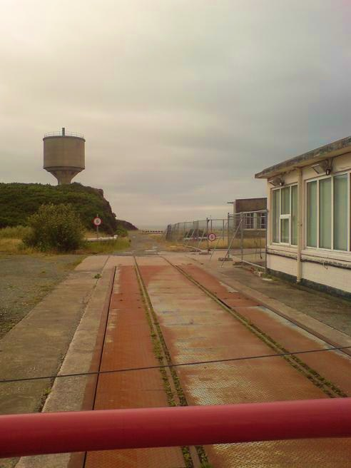 The northern terminus of the Anglesey Central Railway